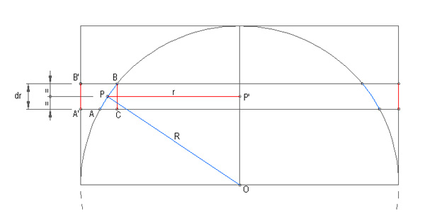 spf_surface